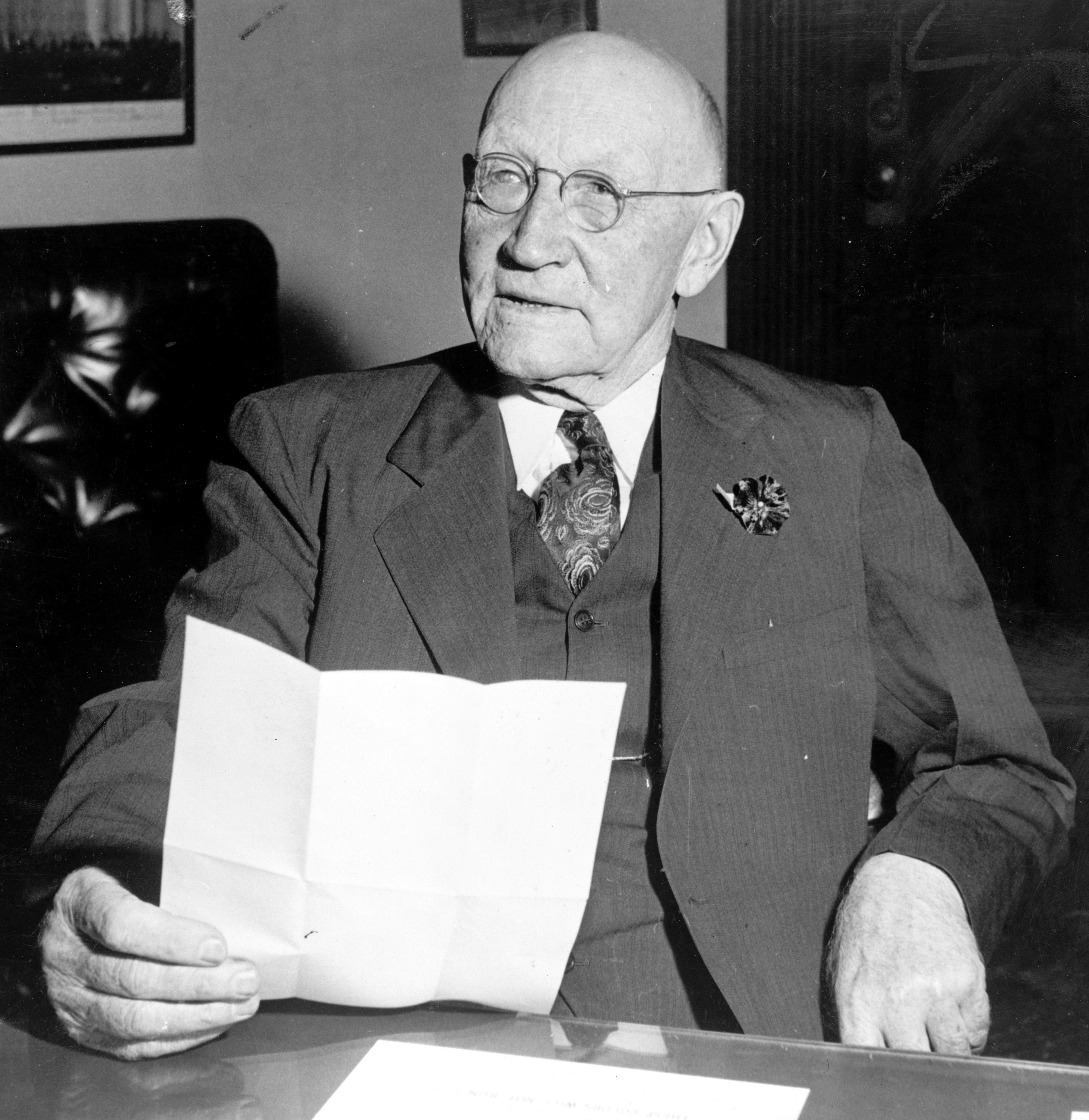 Congressman Robert L. Doughton